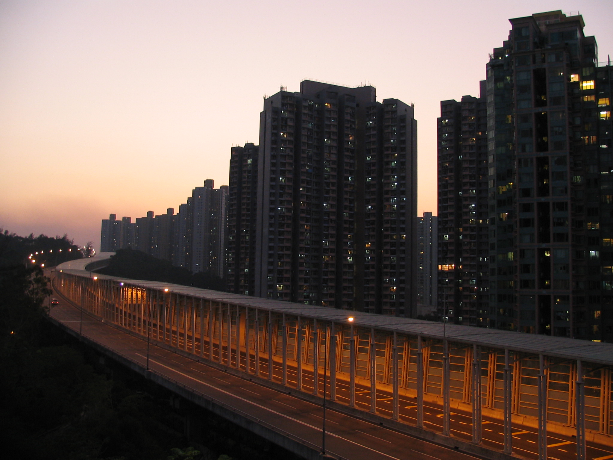 Ma On Bypass Monte Vista Section at Dusk